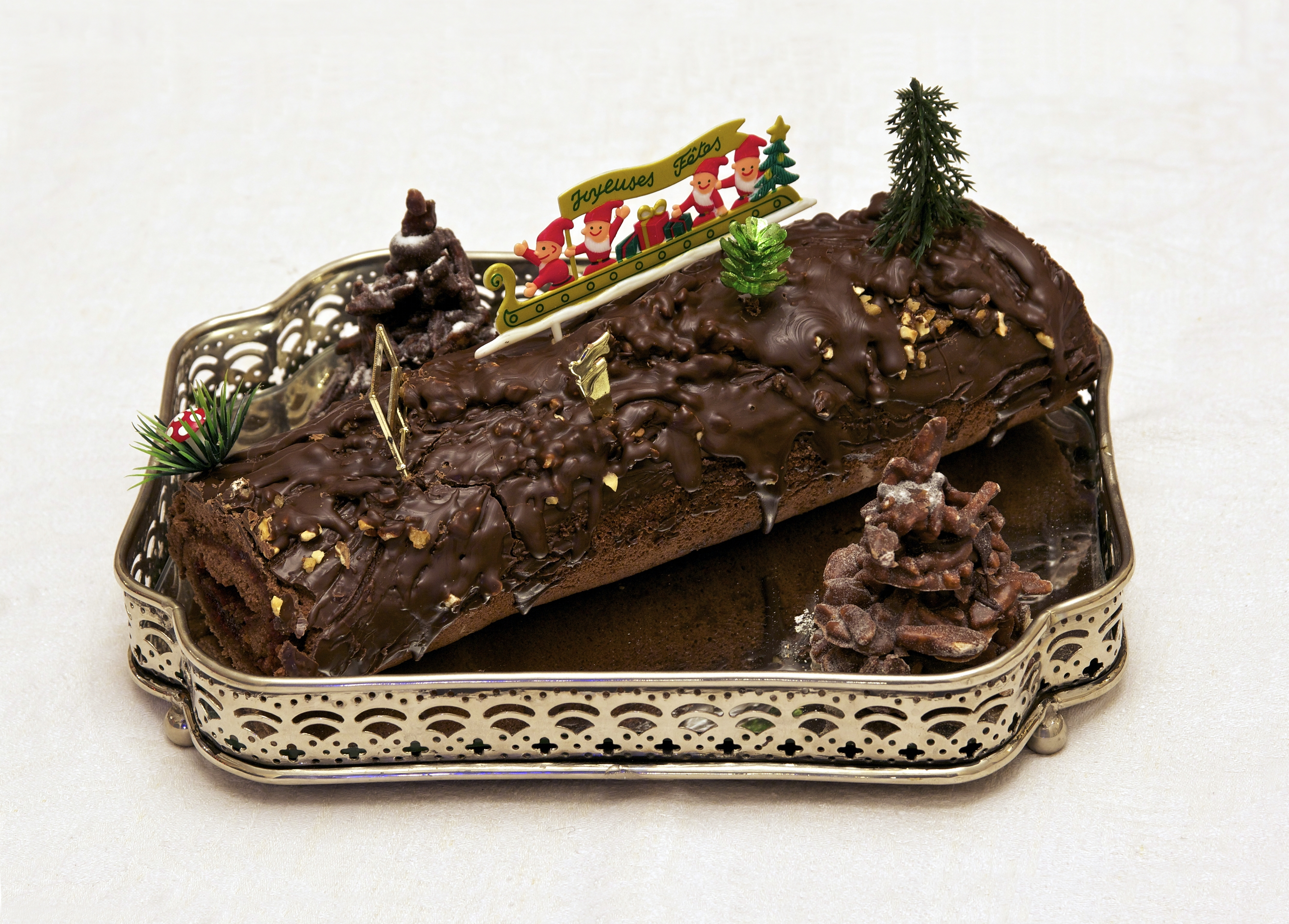 A home made "Bûche de Noël" (yule log), this one is chocolate filled with rapsberry jam. French traditional dessert for Christmas.